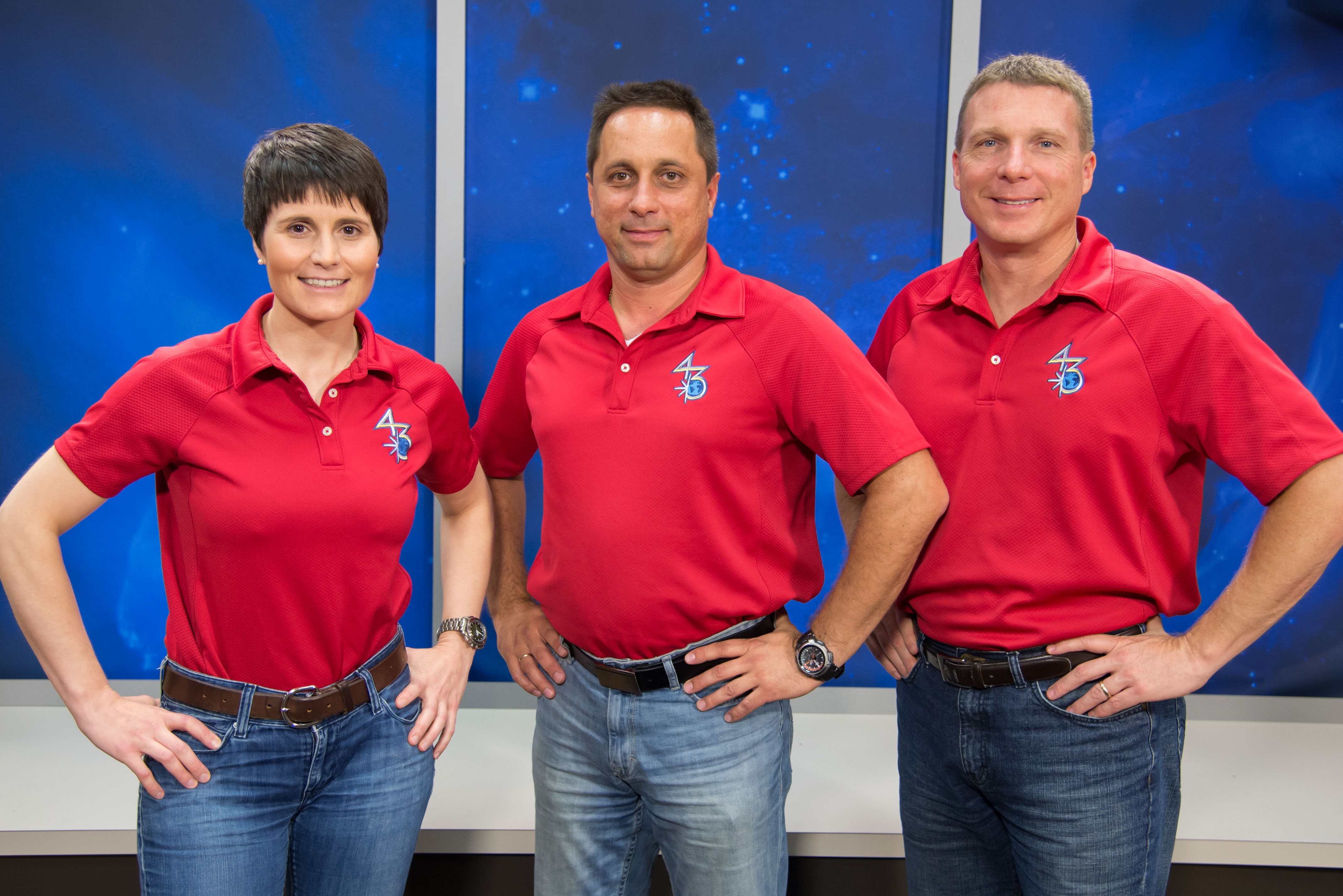 NASA astronaut Terry Virts (right), Expedition 42 flight engineer and Expedition 43 commander; Russian cosmonaut Anton Shkaplerov and European Space Agency astronaut Samantha Cristoforetti, both Expedition 42/43 flight engineers, pose for a portrait following an Expedition 42/43 preflight press conference at NASA's Johnson Space Center.